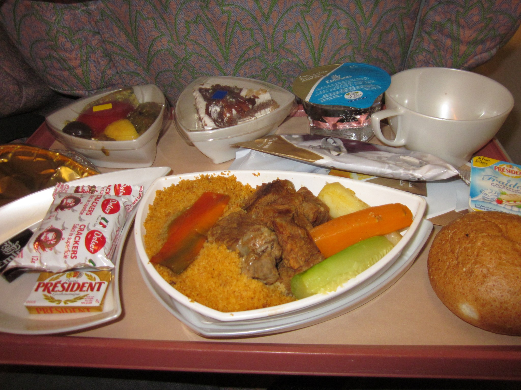 plate in plane - couscous